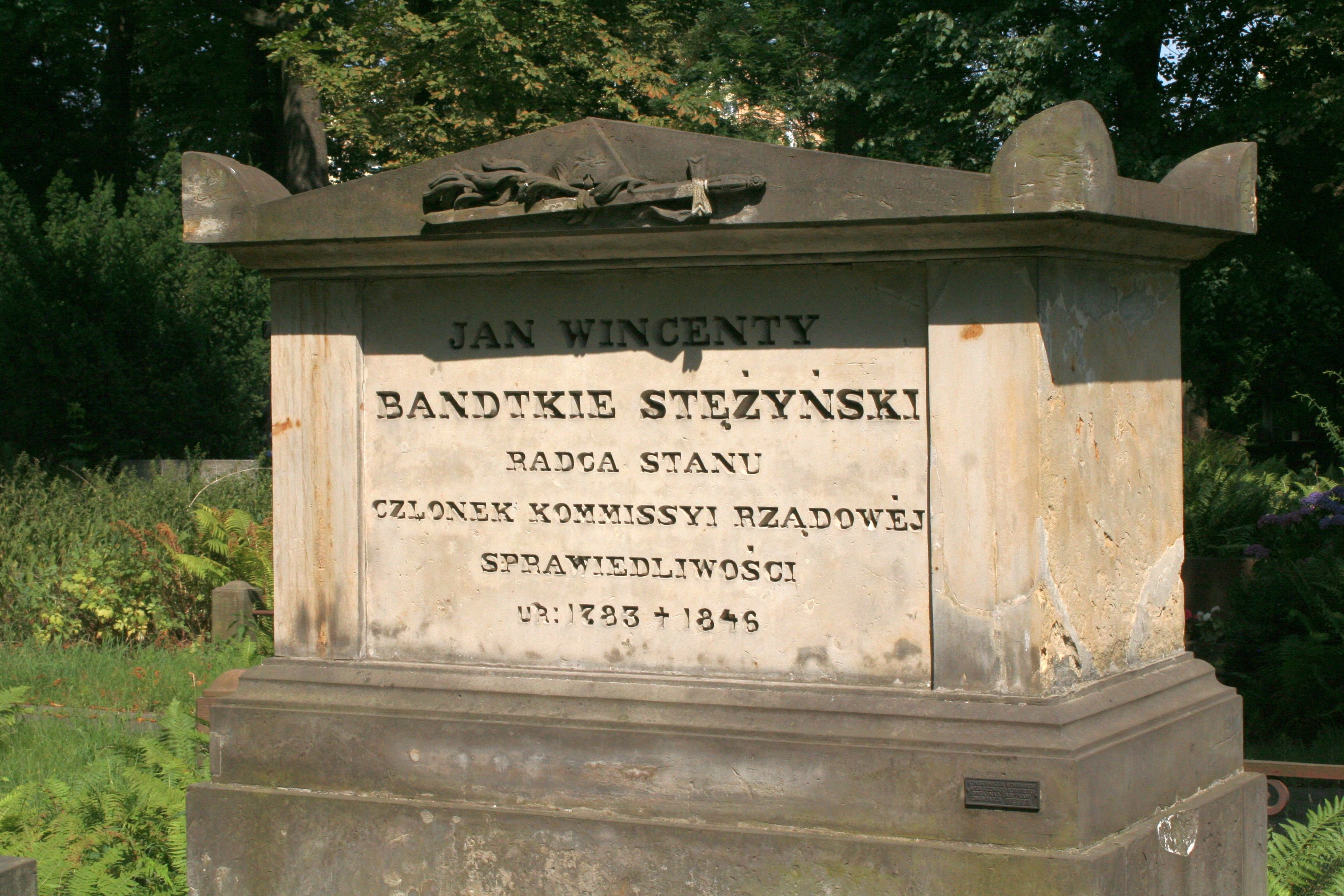 Jan Wincenty Bandtkie's Stężyński's grave at Evangelical-Reformed Cemetery in Warsaw.